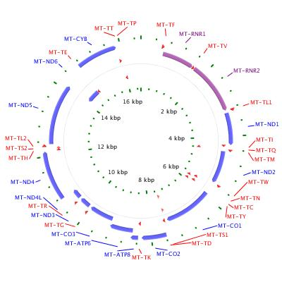 Human mitochondrial DNA. Mitochondrial DNA is typically diagrammed as a circular structure with genes and regulatory regions labeled.